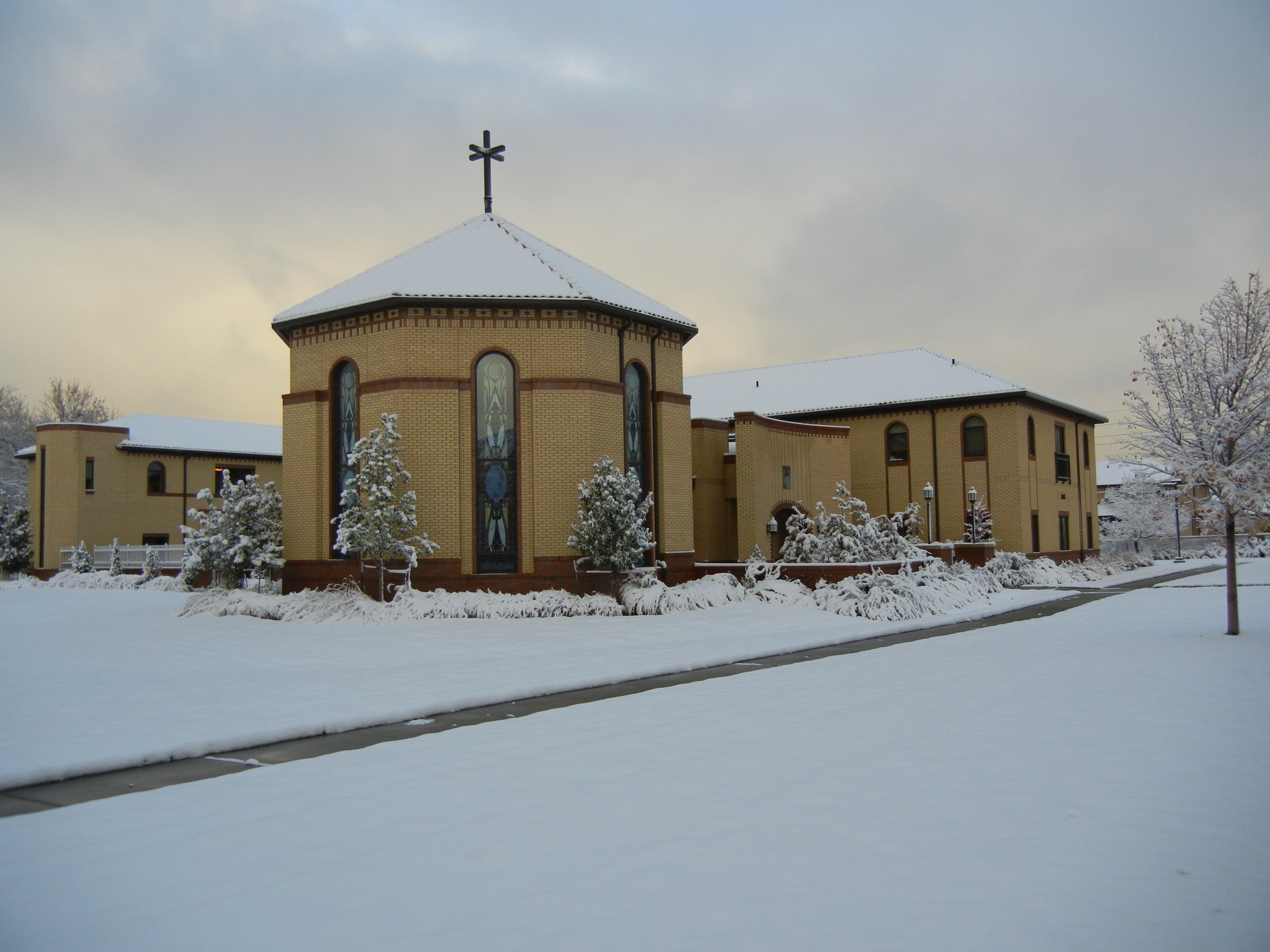 Spirituality Year House at St. John Vianney Theological Seminar in Denver.